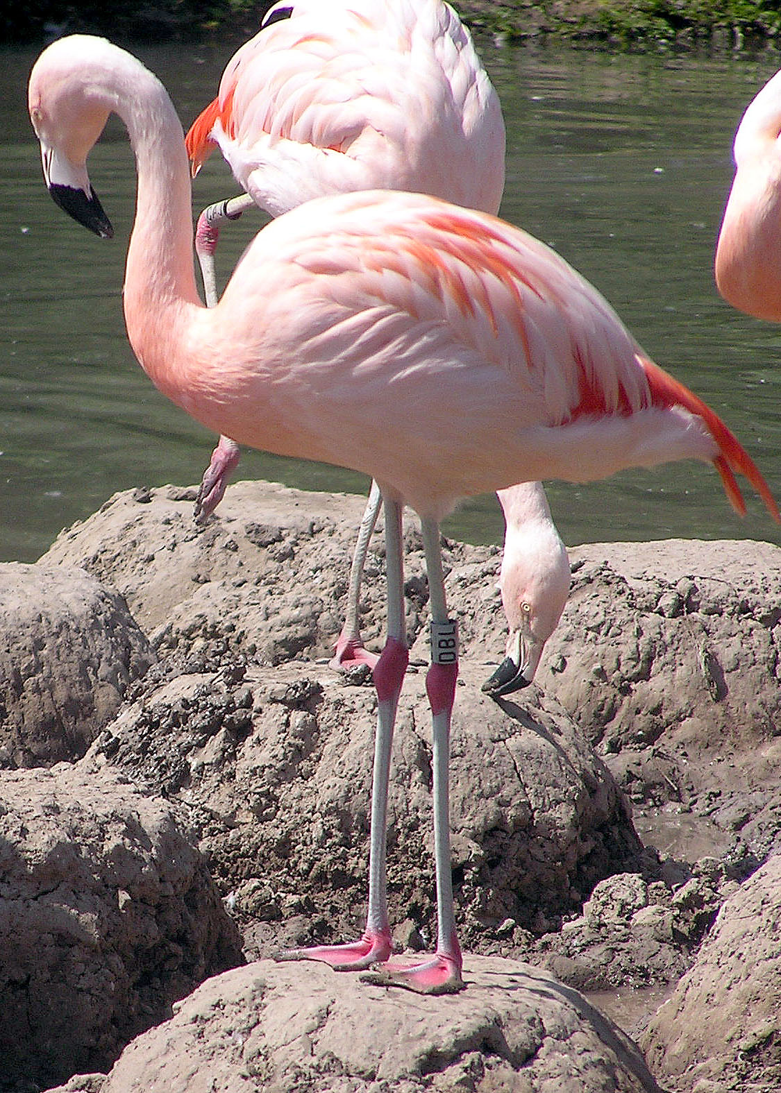 Chilean Flamingo at Slimbridge Wildfowl and Wetlands Centre, Gloucestershire, England. Photographed by Adrian Pingstone in June 2004 and released to the public domain.